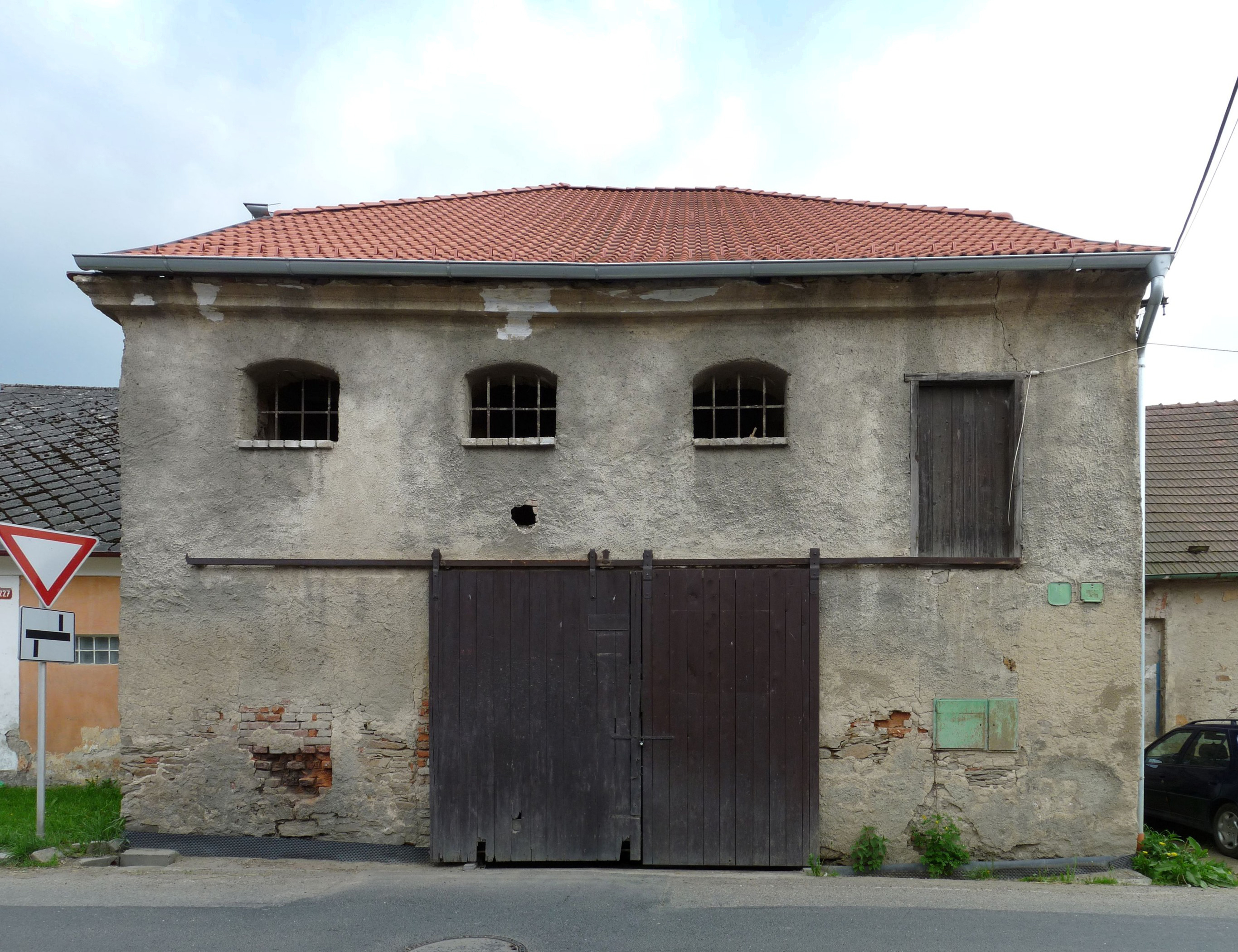 Former synagogue the town of Načeradec, Benešov District, Central Bohemian Region, Czech Republic.